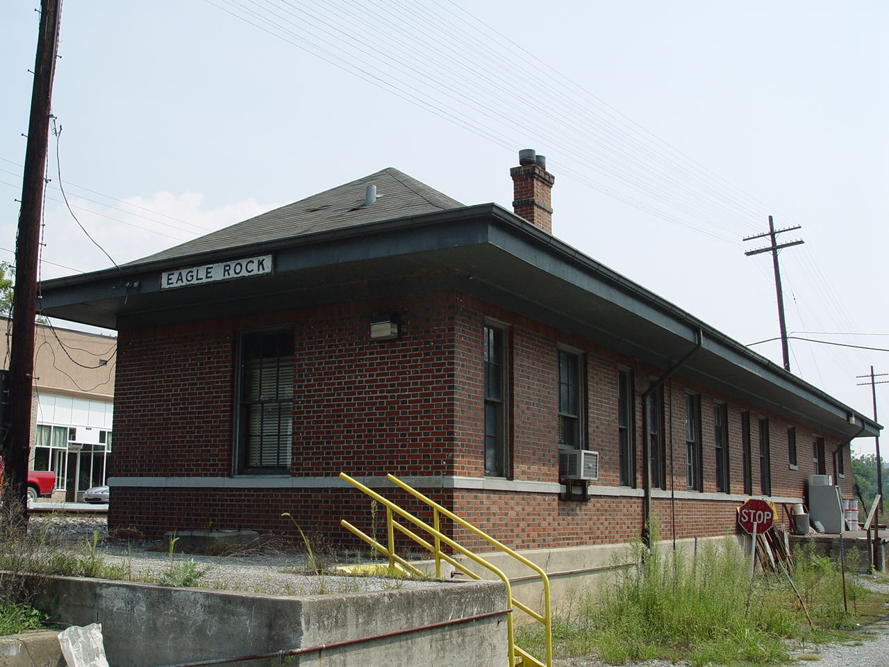 The Eagle Rock Train Depot sits on the banks of the James River in Eagle Rock, Virginia